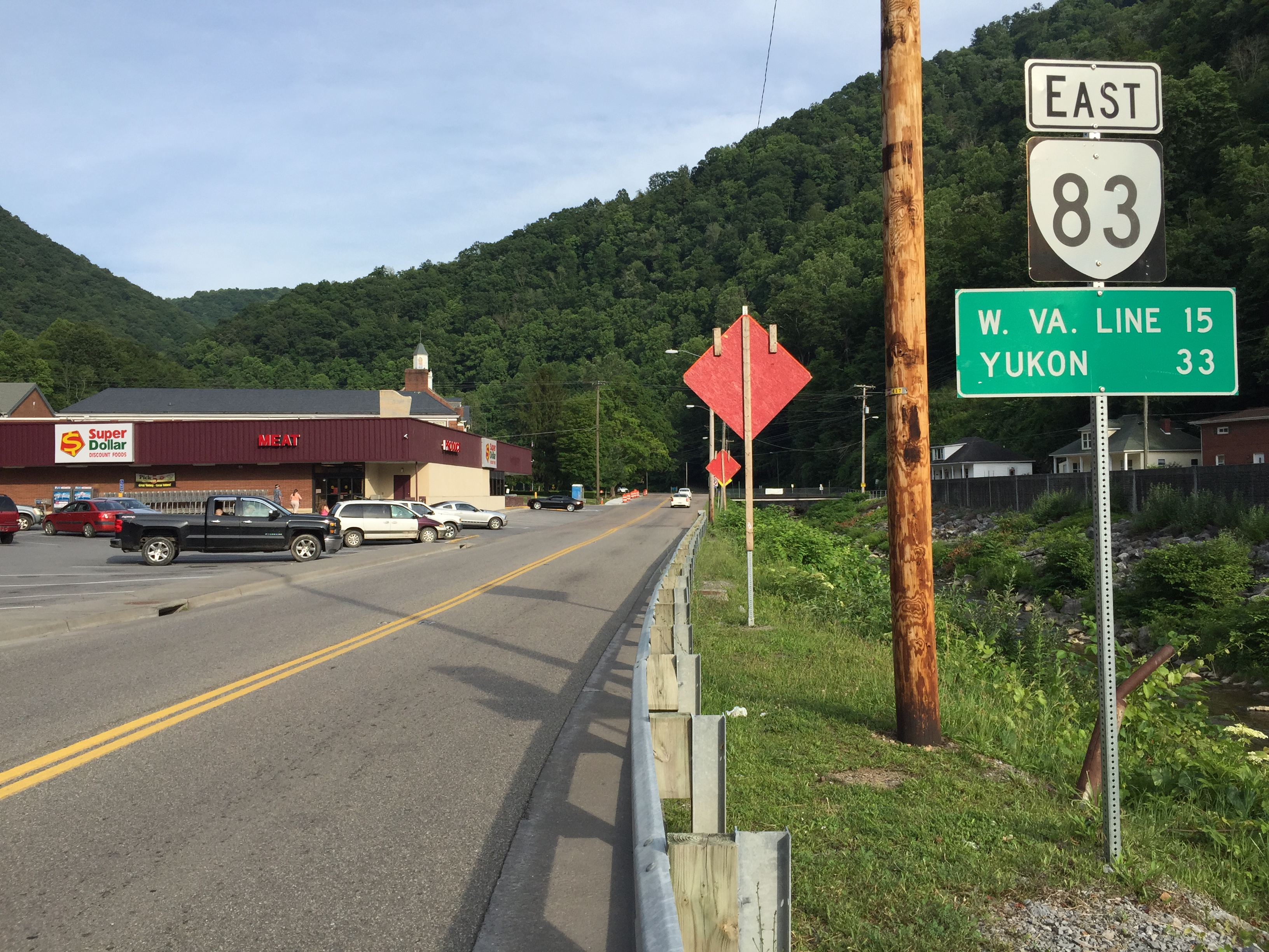 View east along Virginia State Route 83 (Edgewater Drive) just east of U.S. Route 460 (Anchorage Circle) in Grundy, Buchanan County, Virginia